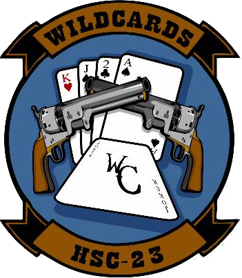 Emblem of the U.S. Navy Helicopter Sea Combat Squadron 23 (HSC-23) "Wildcards".